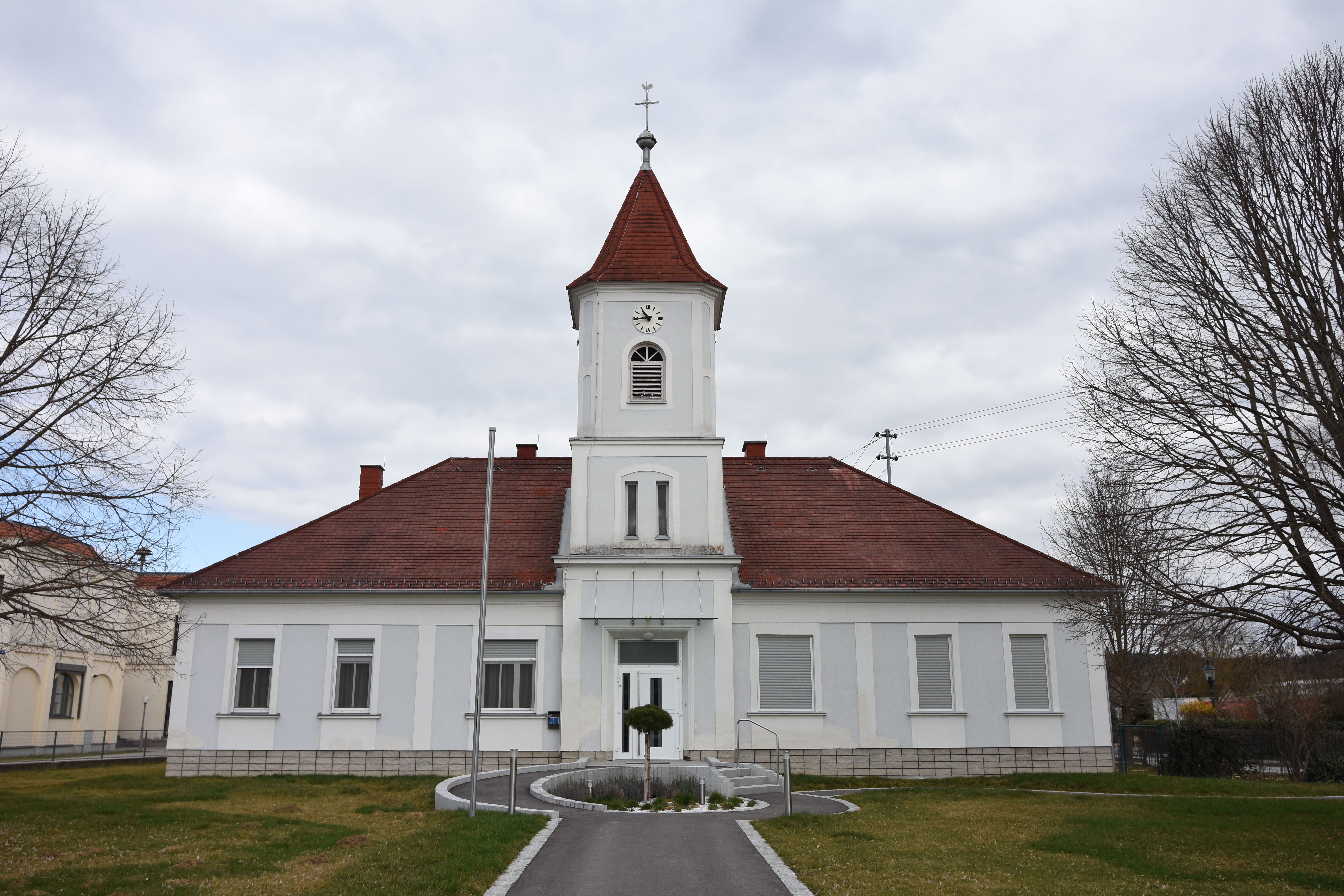 Church Kemeten